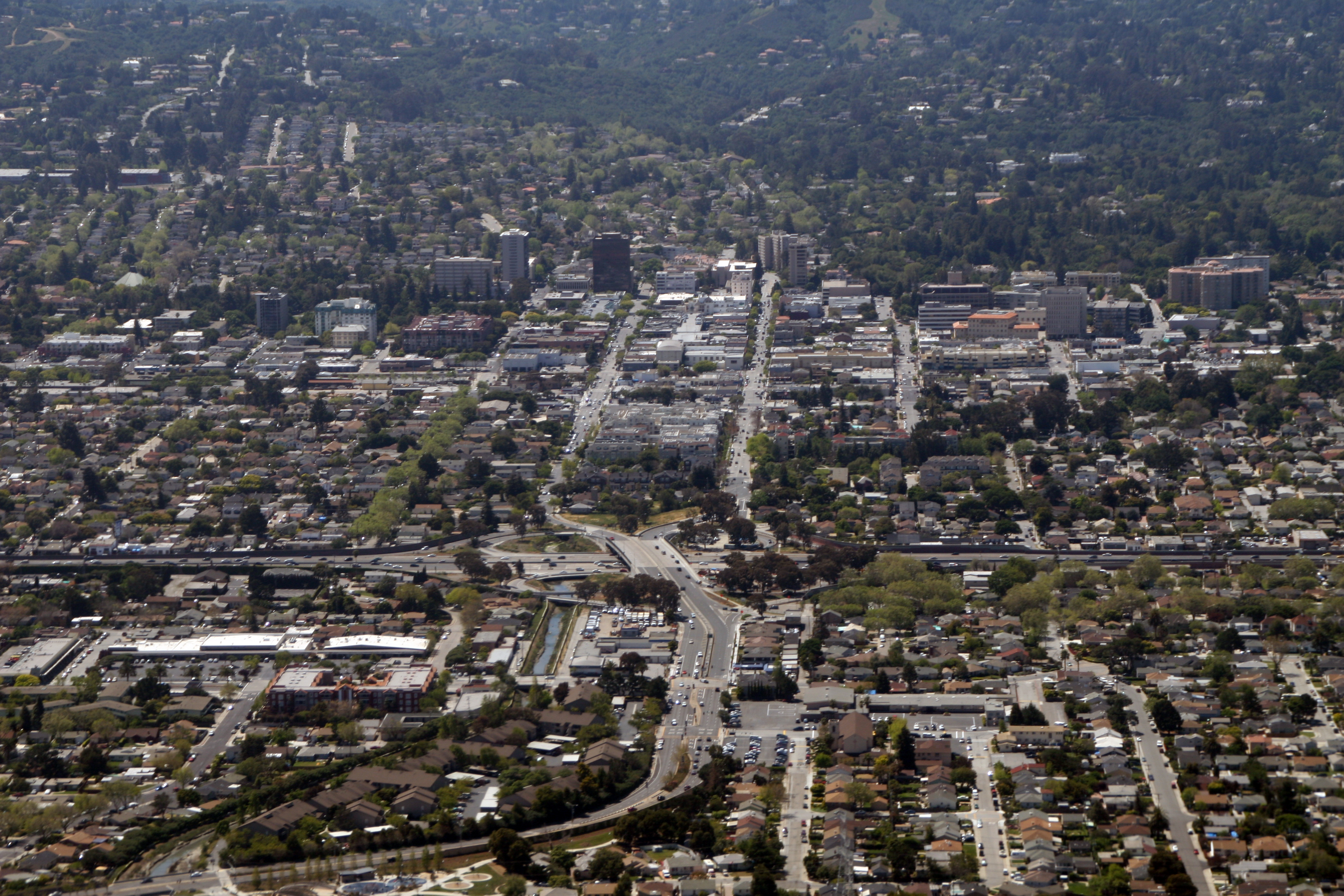 Downtown San Mateo (background). The large street running from foreground to background in the middle of the photograph is 3rd Avenue, which bifurcates into 3rd (on the right) and 4th (on the left) after crossing US 101 (running from left to right); photograph is taken facing west.